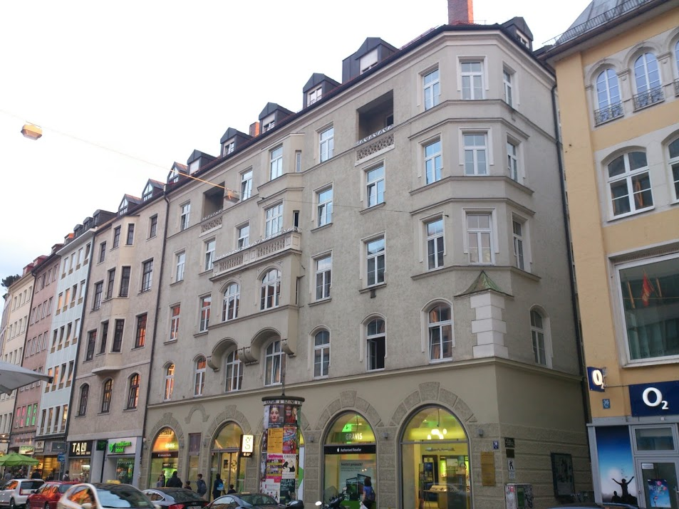 Sterneckerbräu, Munich, in 2014